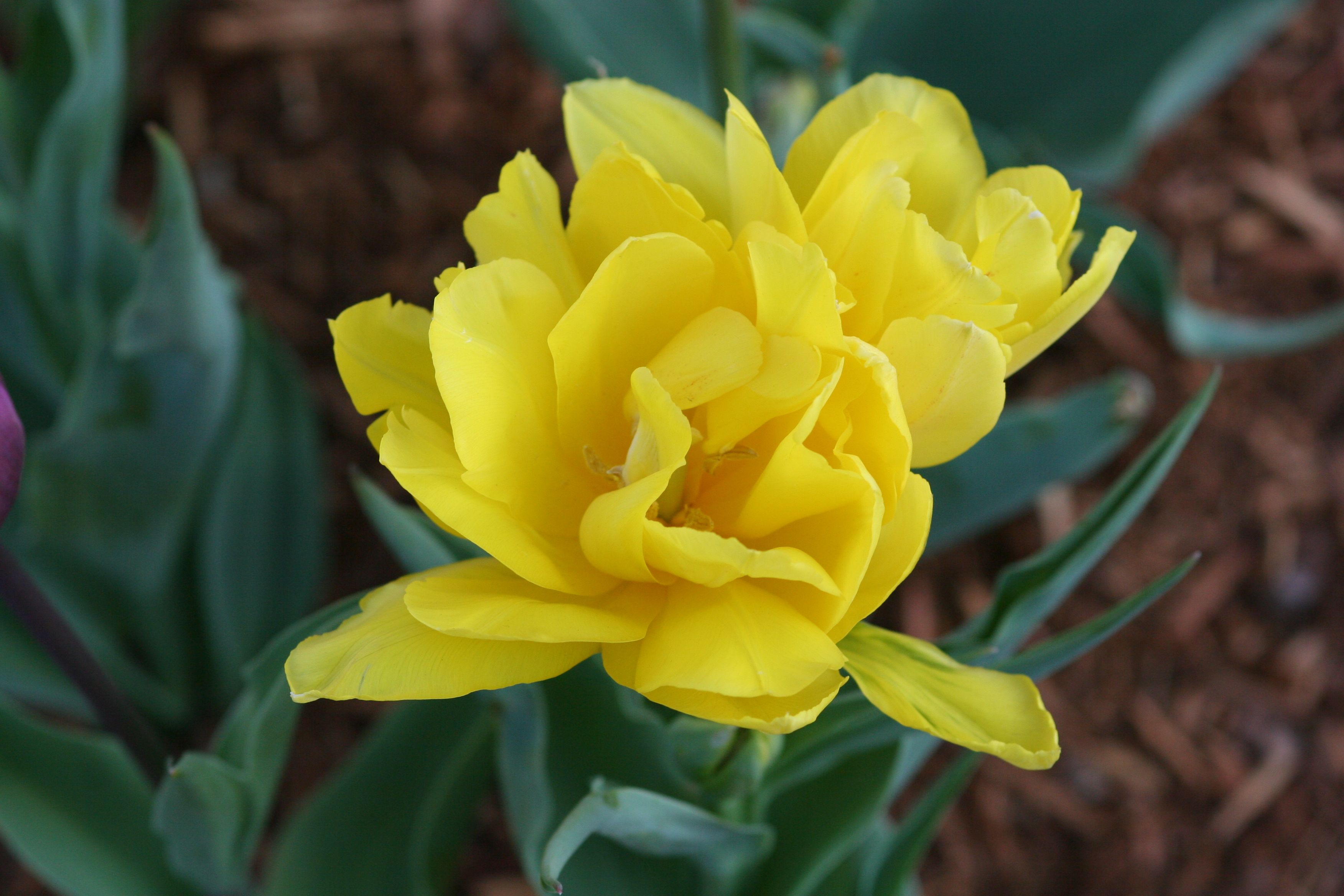 Yellow tulip. Taken May 2005, Cambridge MA USA, by me, User Debivort.